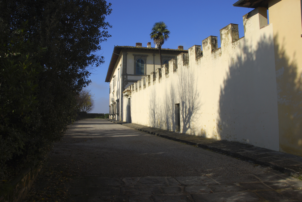 Villa Medicea di Marignolle, Florence, Italy. Wall with Merlons.